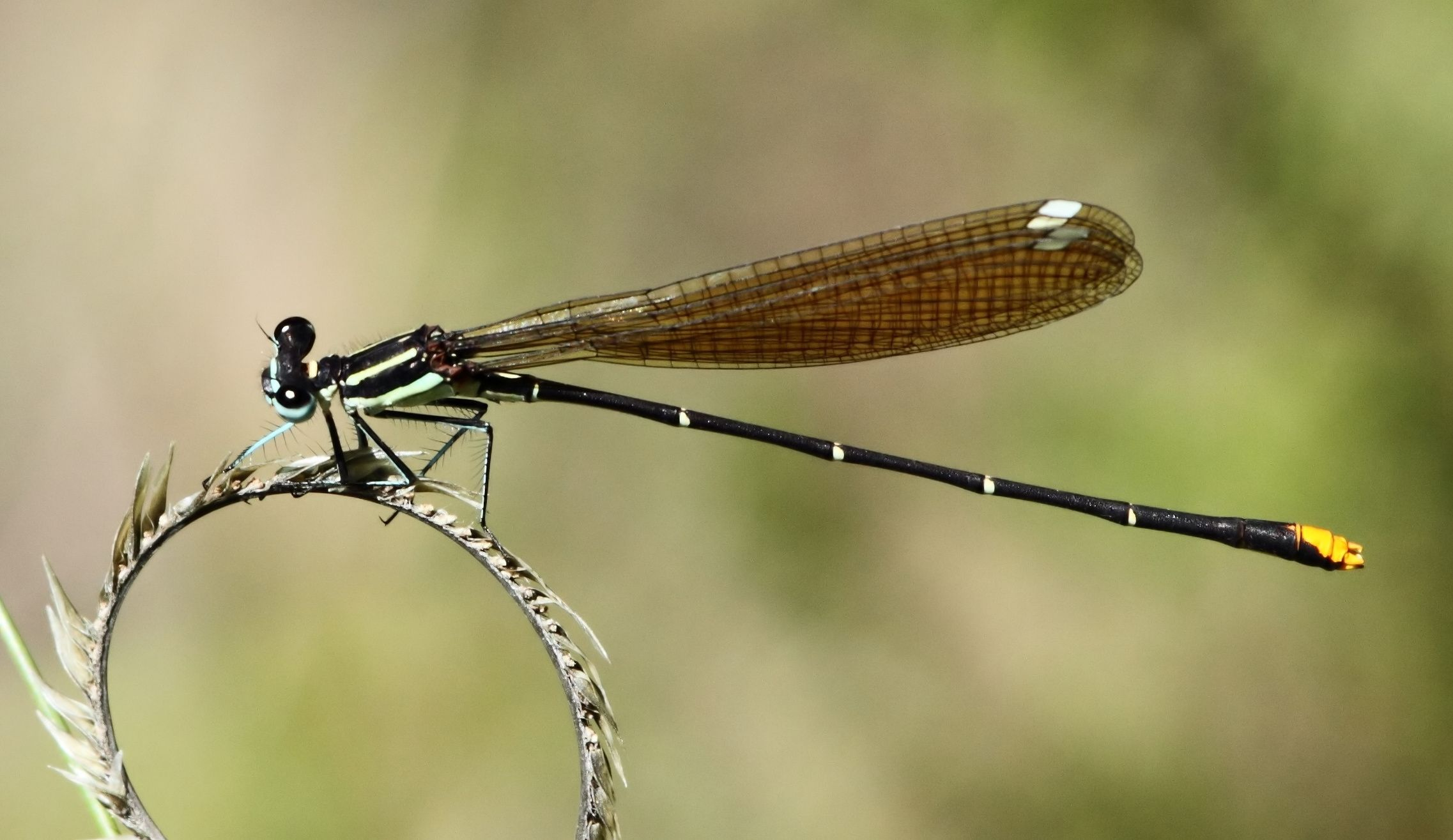 Goldtail damselfly near Sani Pass Road, KwaZulu-Natal Drakensberg